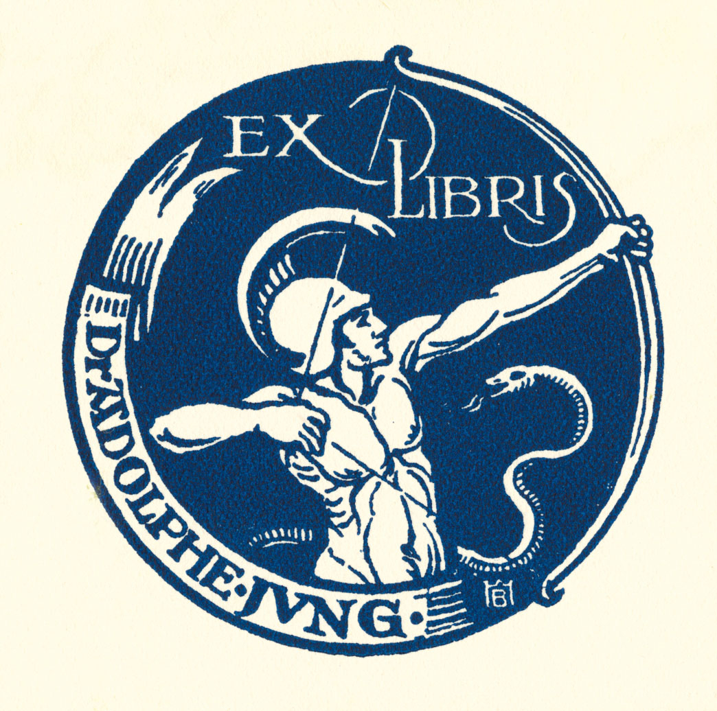 Ex libris Dr. Adolphe Jung